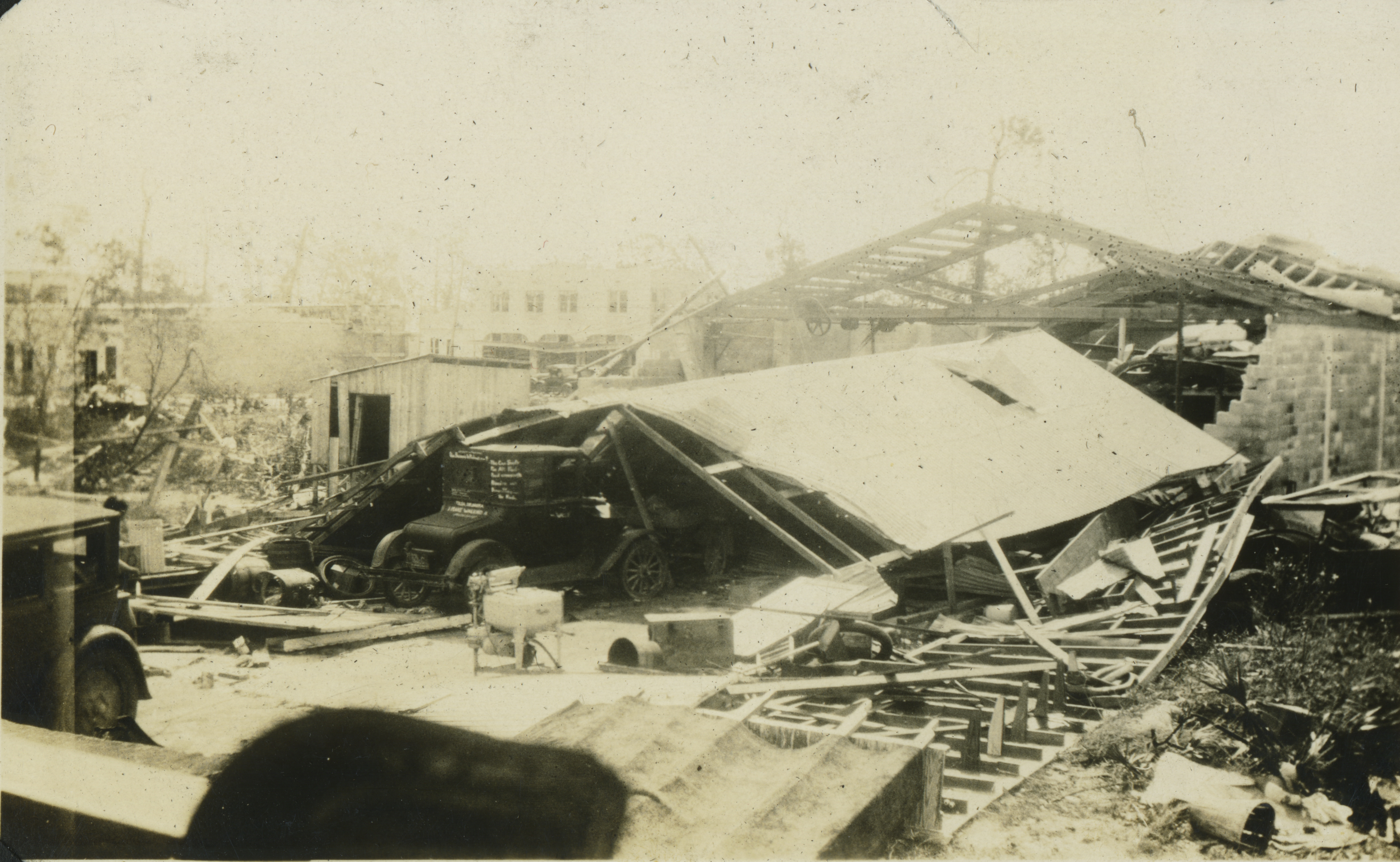 Damage in Florida in the aftermath of the 1928 Okeechobee hurricane